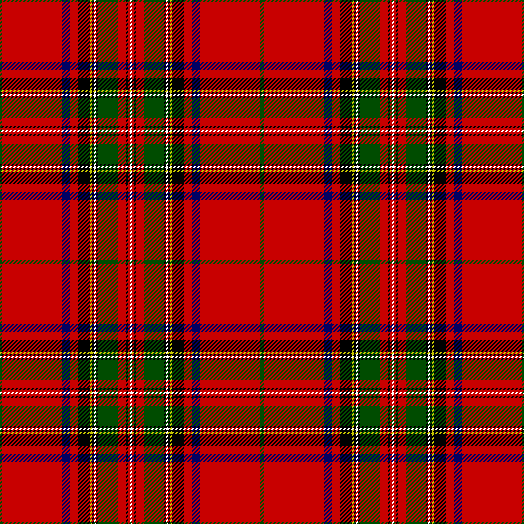 Stewart tartan, as published in the Vestiarium Scoticum. Modern thread count: G4 R60 B8 R8 Bk12 Y2 Bk2 W2 Bk2 G20 R8 k2 R2 W2.